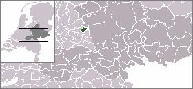 Locator map of Dutch municipalities (LocatieScherpenzeel.png)